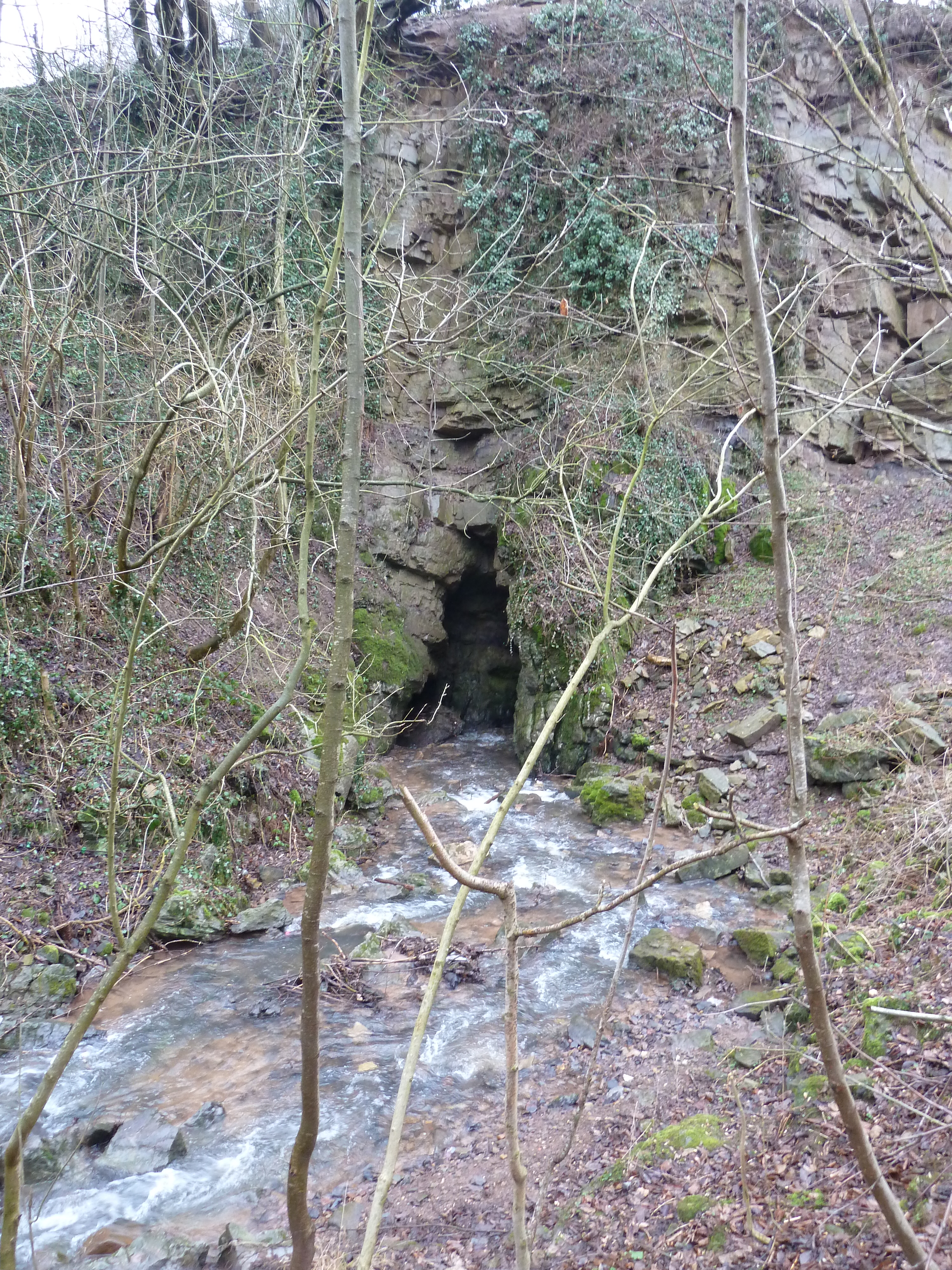 Chantoir near Rouge Thier, province Liège, Belgium